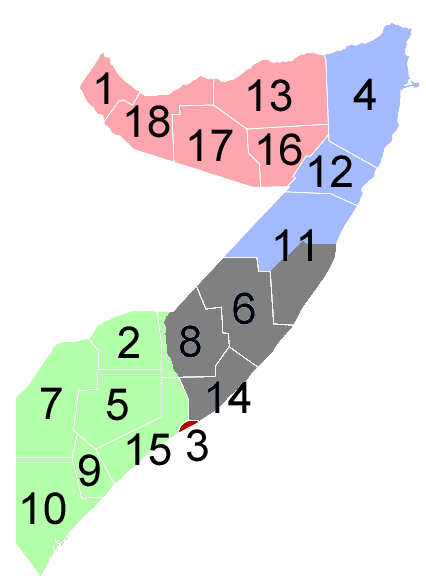 Map of Somalia showing the major self-declared states and areas of factional control. Pink - Somaliland (declared independent, unrecognized) Blue - Puntland (declared autonomous) Purple - Galmudug Grey - Disputed areas Red - Hirshabelle Orange - southwest Somalia Yellow - Jubaland